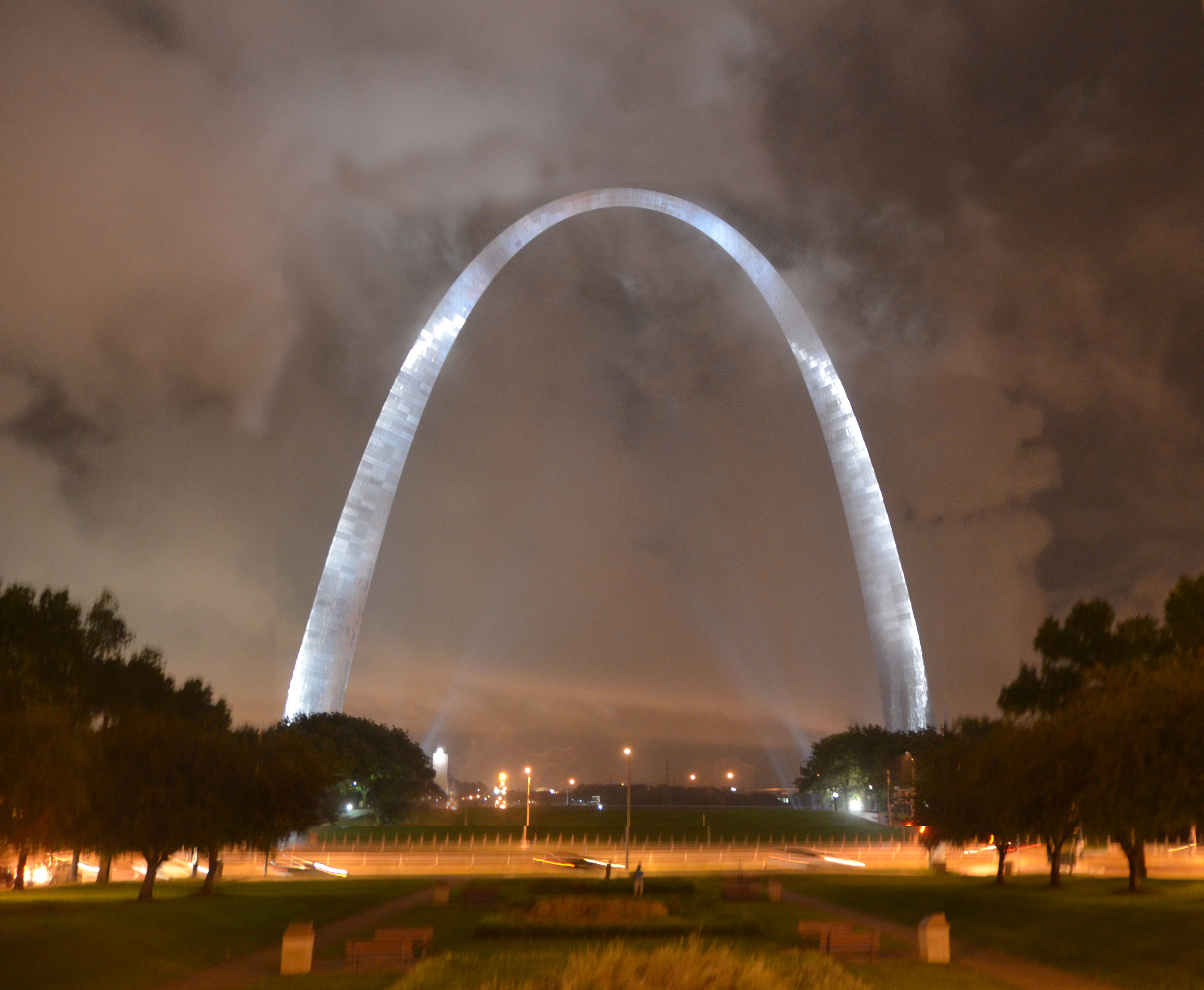 Gateway Arch